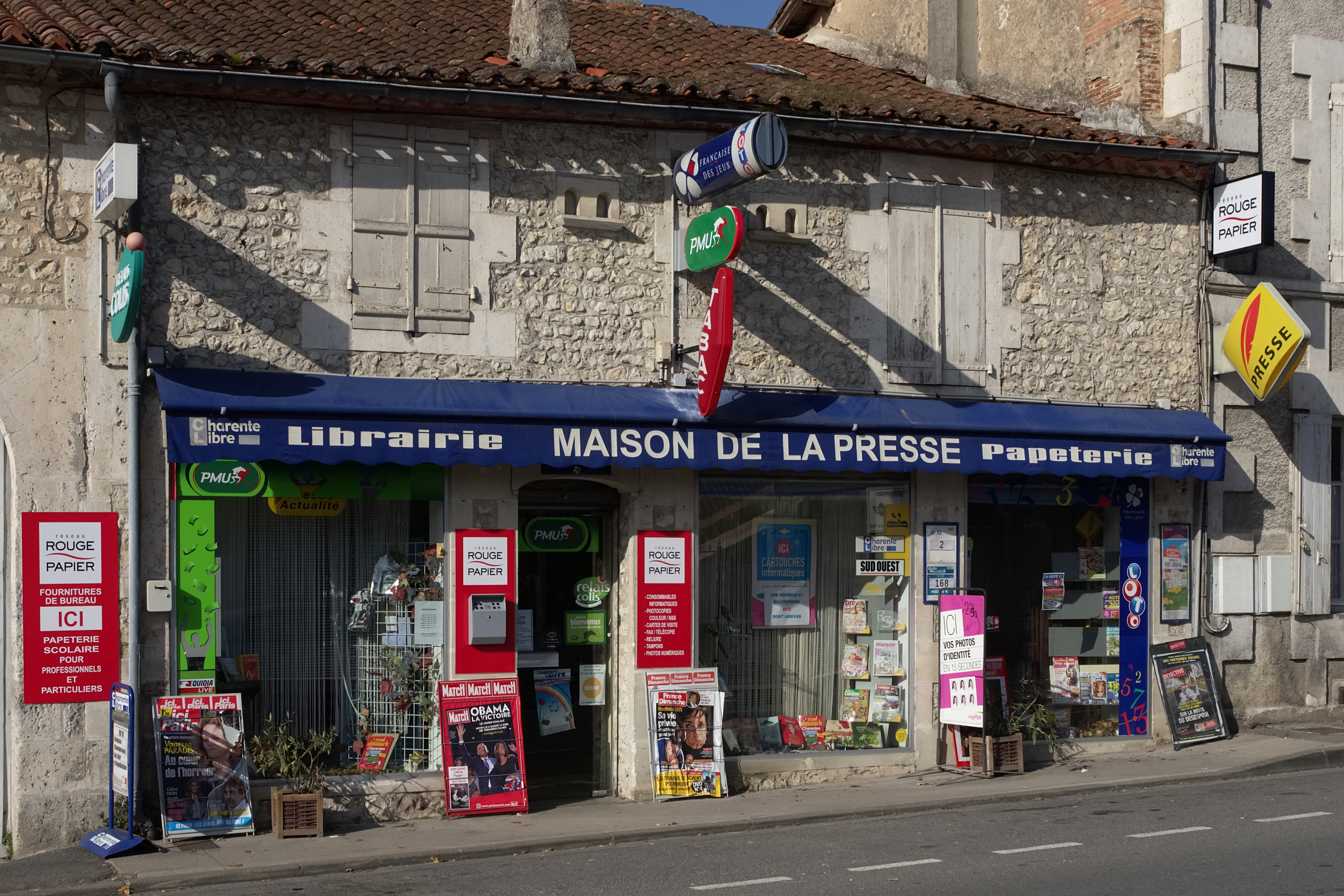 Village newsagent's in Montmoreau-Saint-Cybard, Charente, France.